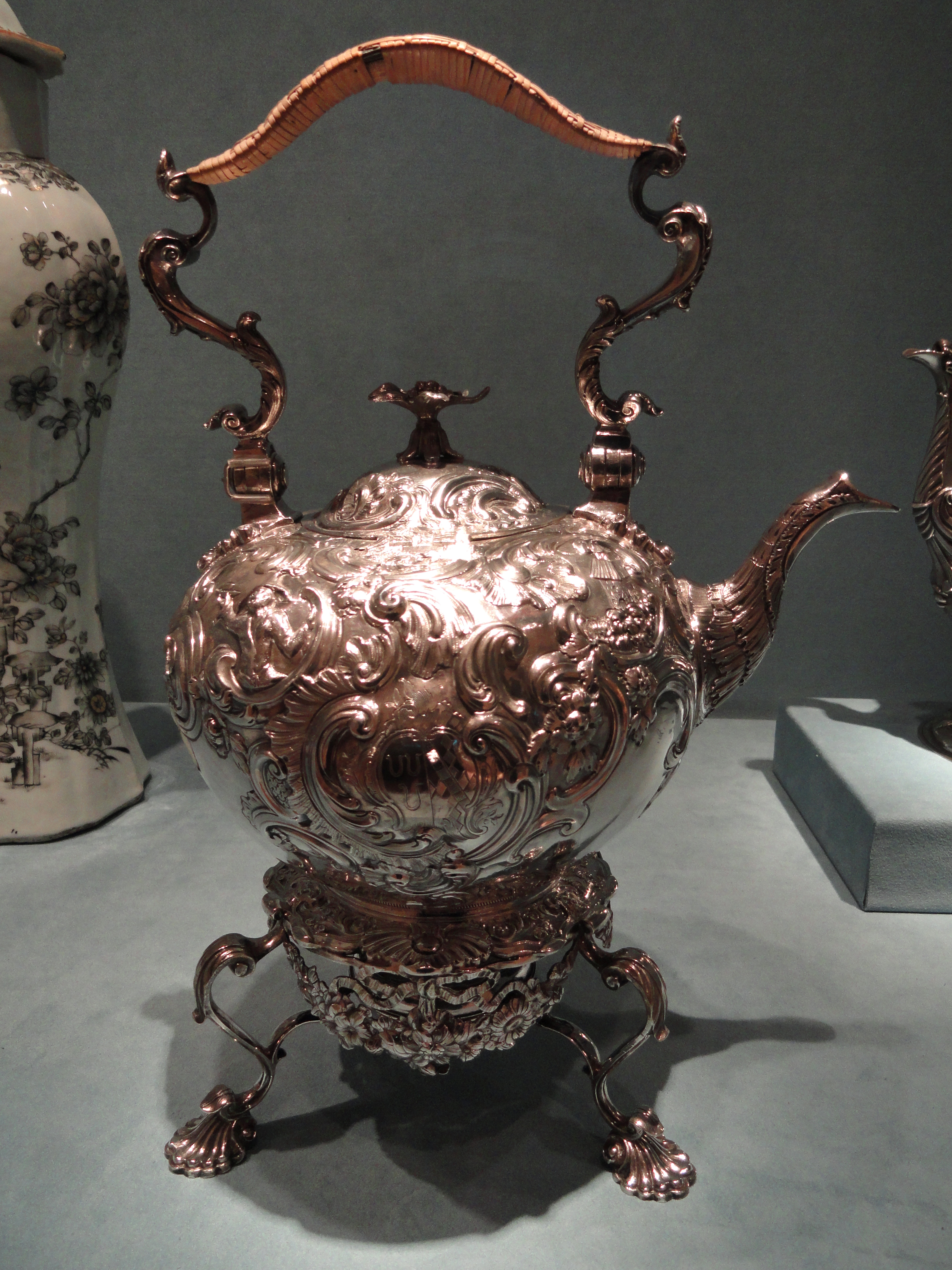 Tea kettle, I.B and W.B. (makers), English, 1764. Exhibit in the Indianapolis Museum of Art, Indianapolis, Indiana, USA.